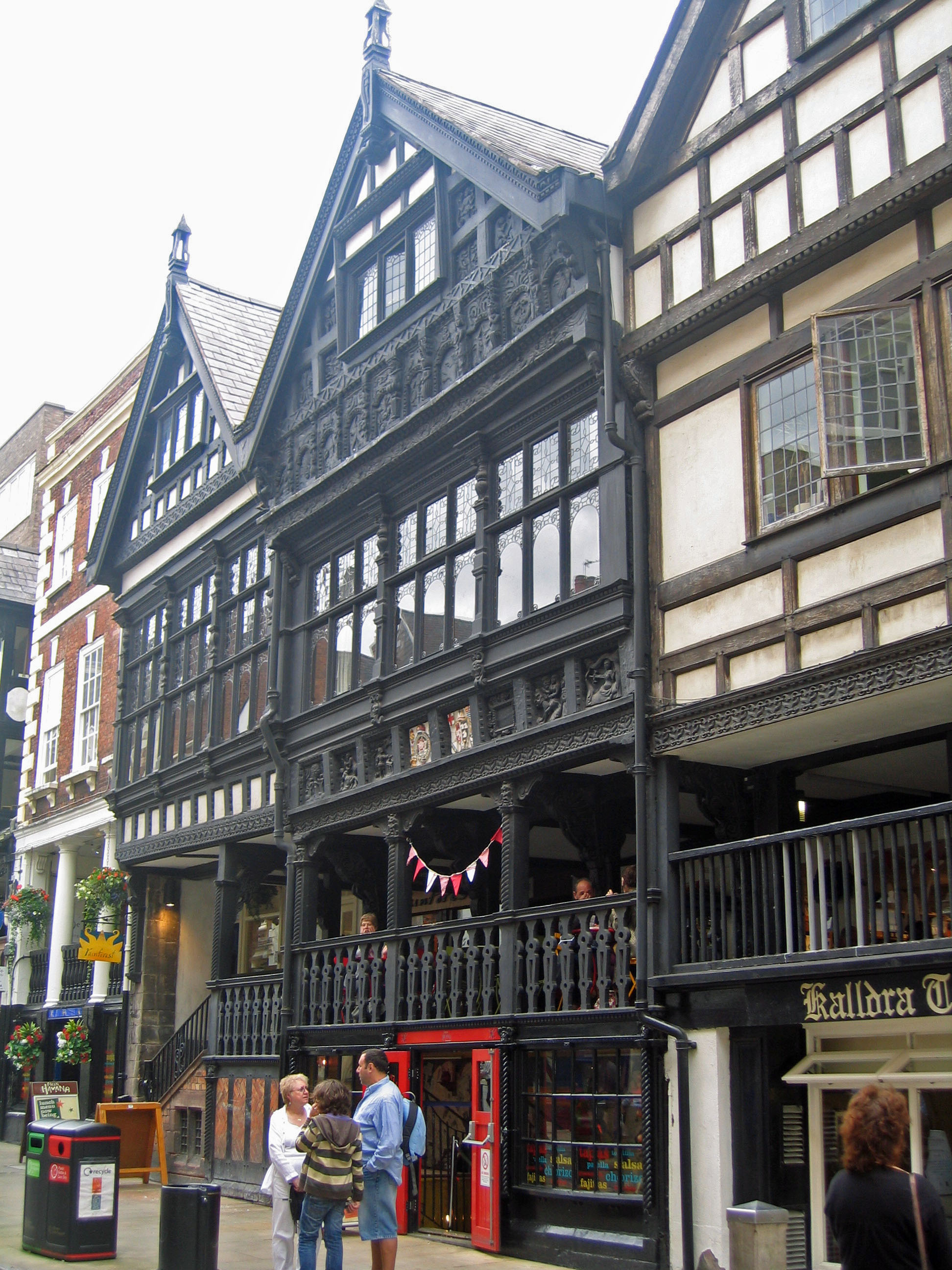 Photograph of Bishop Lloyd's Palace, Watergate Street, Chester, Cheshire, England